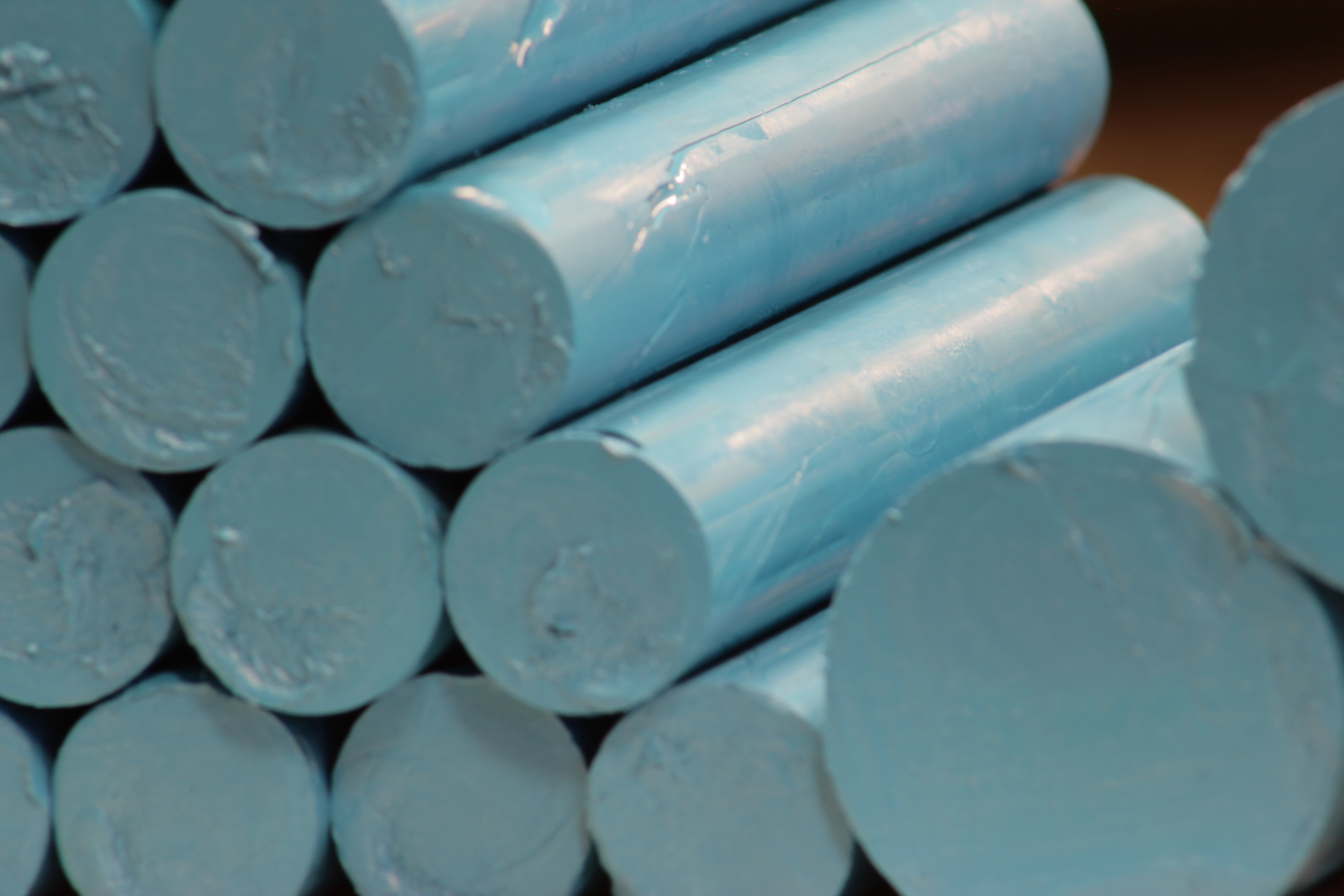 A stack of Pigment Sticks (oil sticks) in the factory of R&F Handmade Paints waiting to be wrapped.